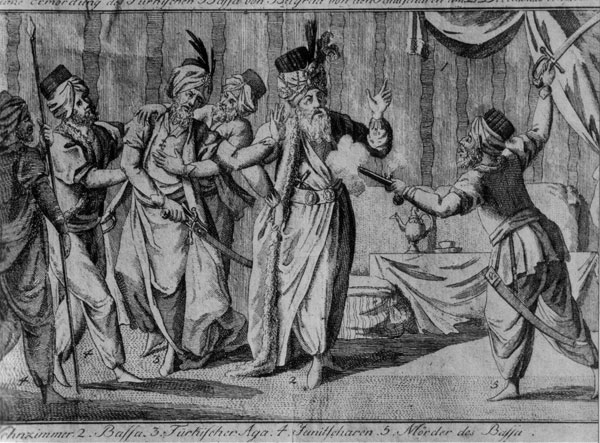 "Dahias are killing Mustapha Pasa", plate from 1802.